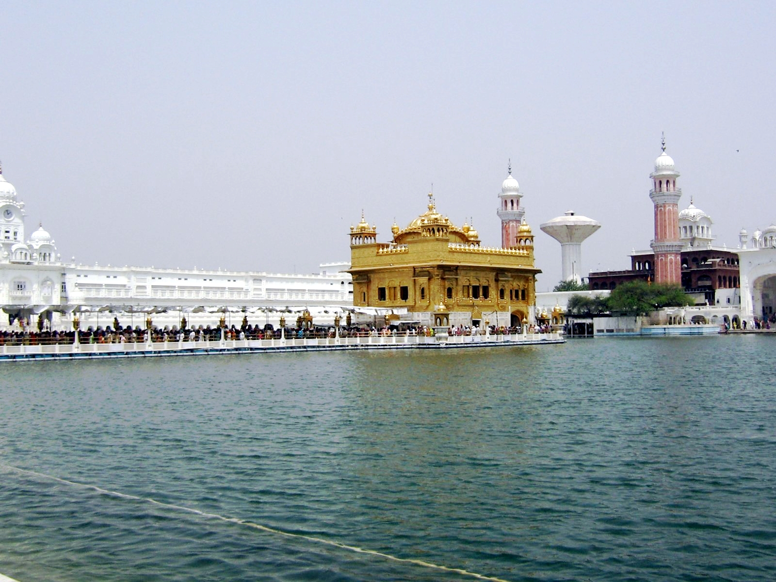 A view of Harmandir Sahib (also known as Golden Temple), Amritsar, India, as seen from its southwest. Also seen are the two watch towers (tall, reddish structures to the right and behind the temple) and the causeway to the left.